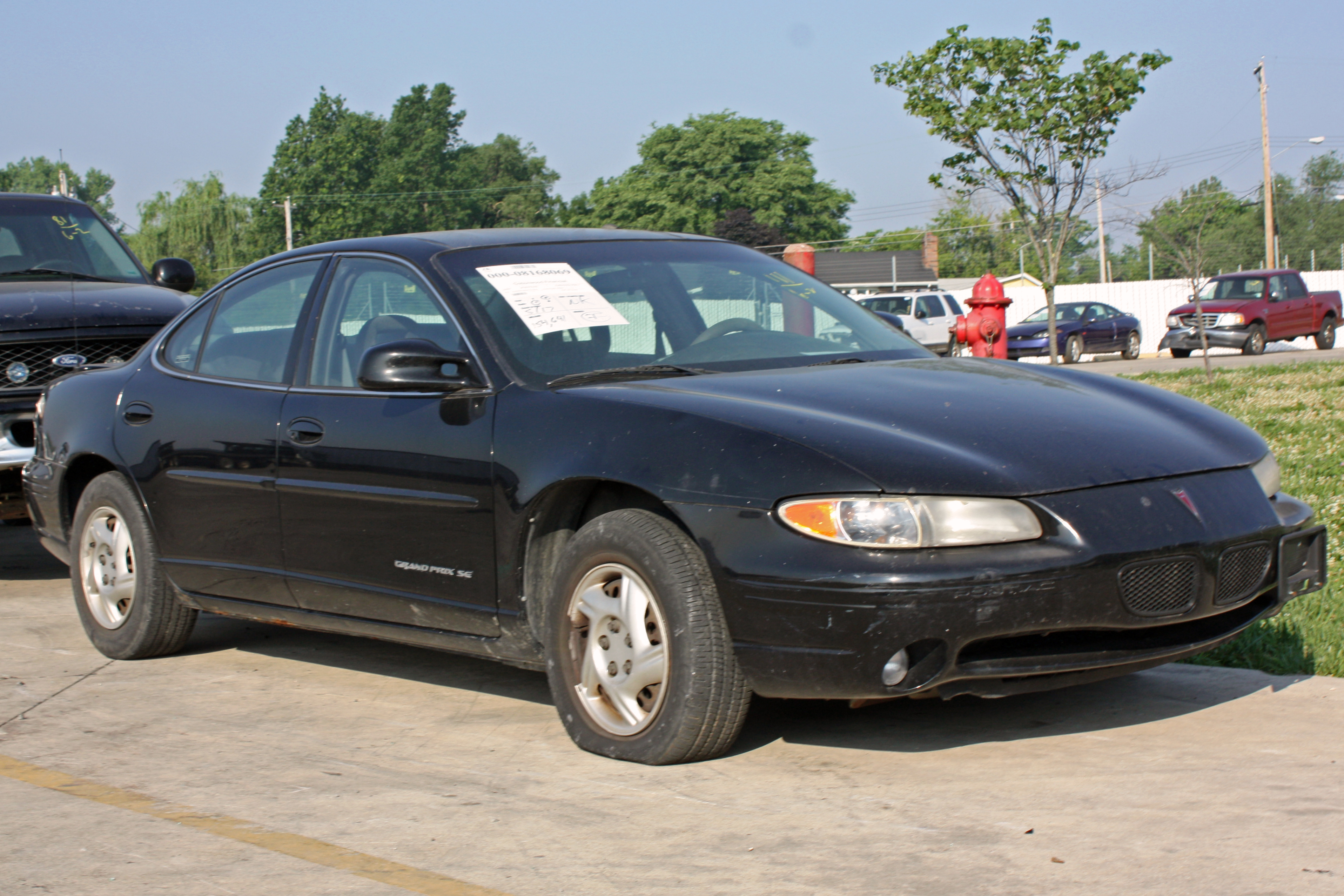 1997-2001 Pontiac Grand Prix sedan